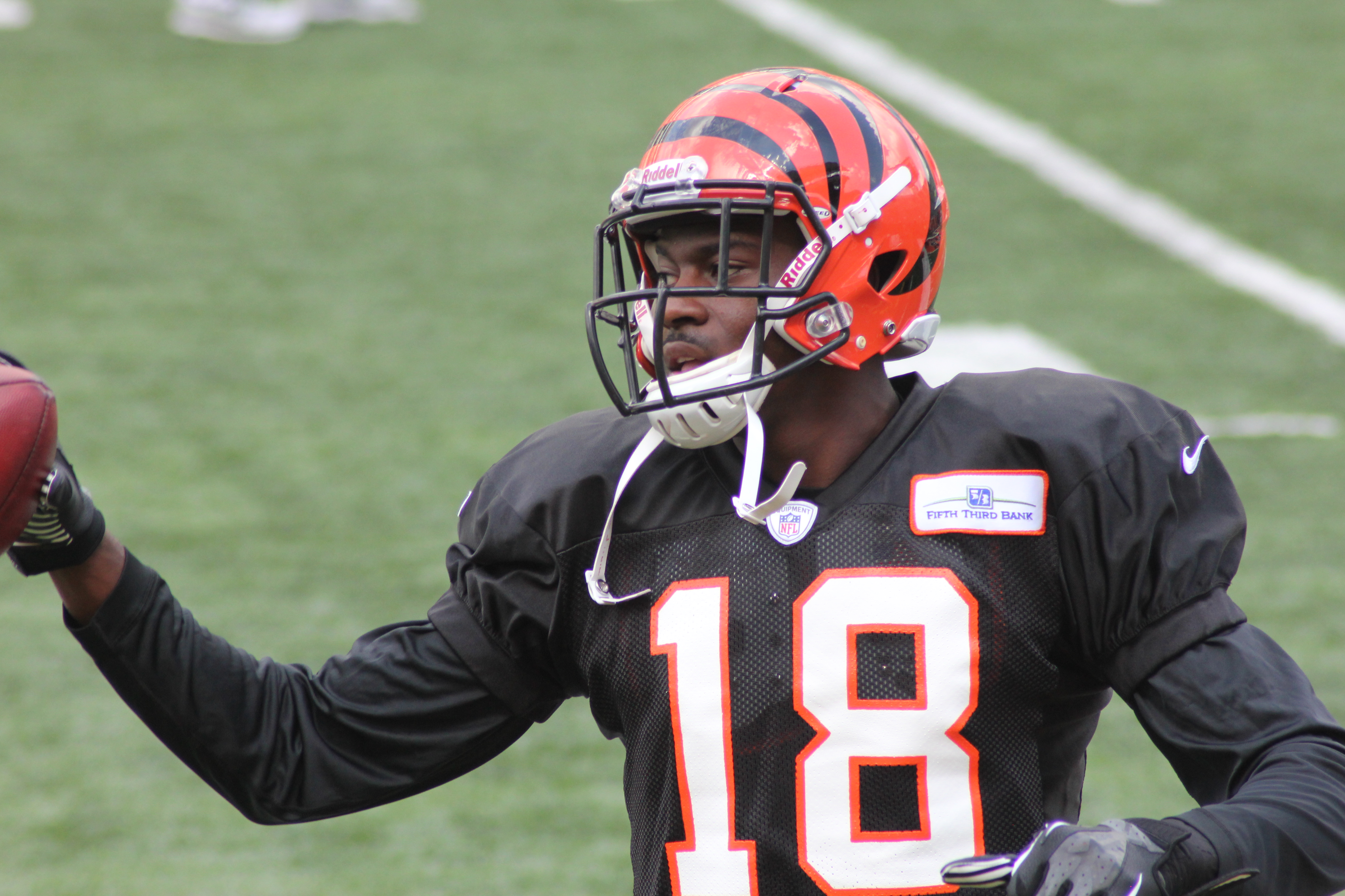 AJ Green at the Bengals training camp